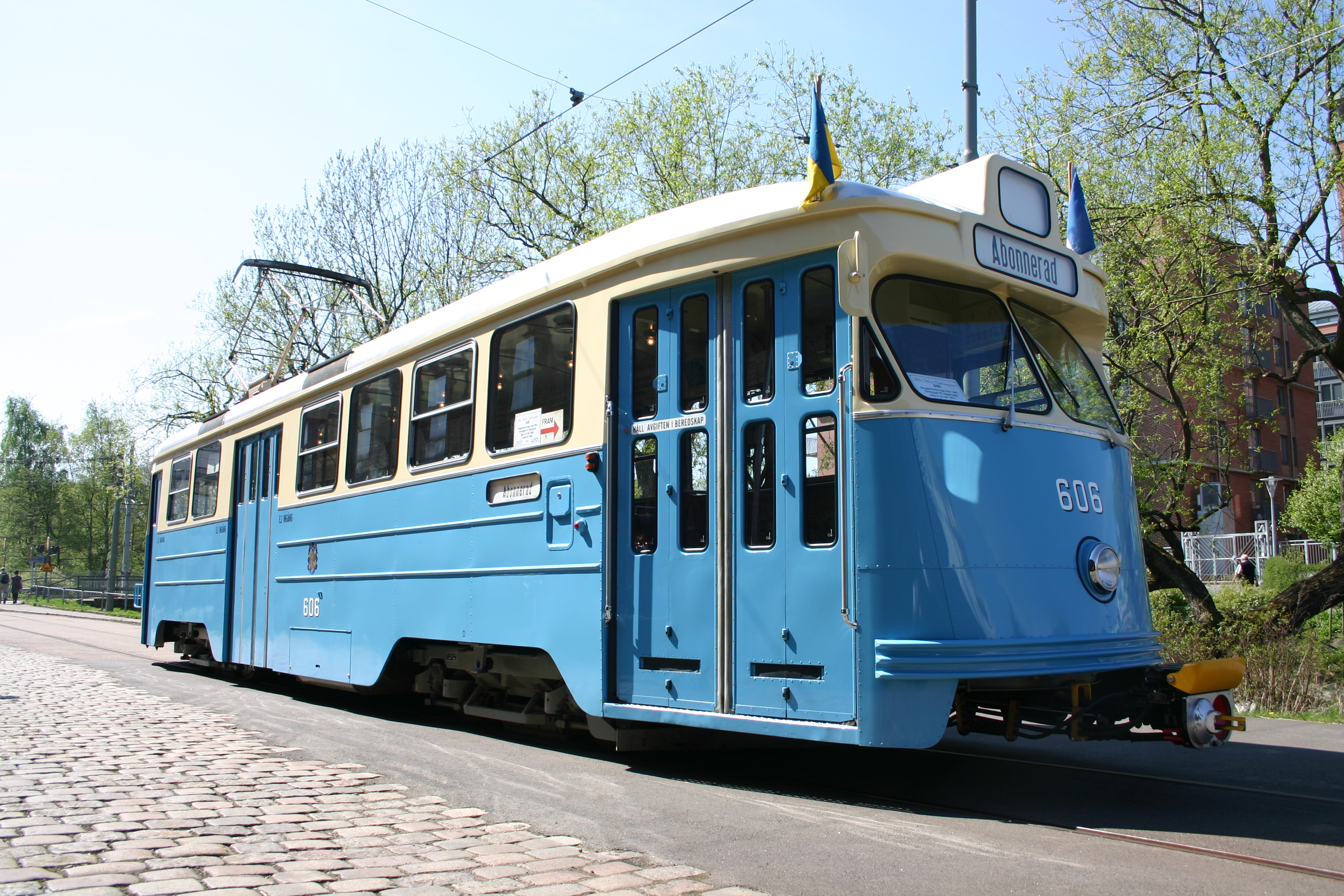 Tram Typ M25, Gothenburgs Tramways/Ringlinien